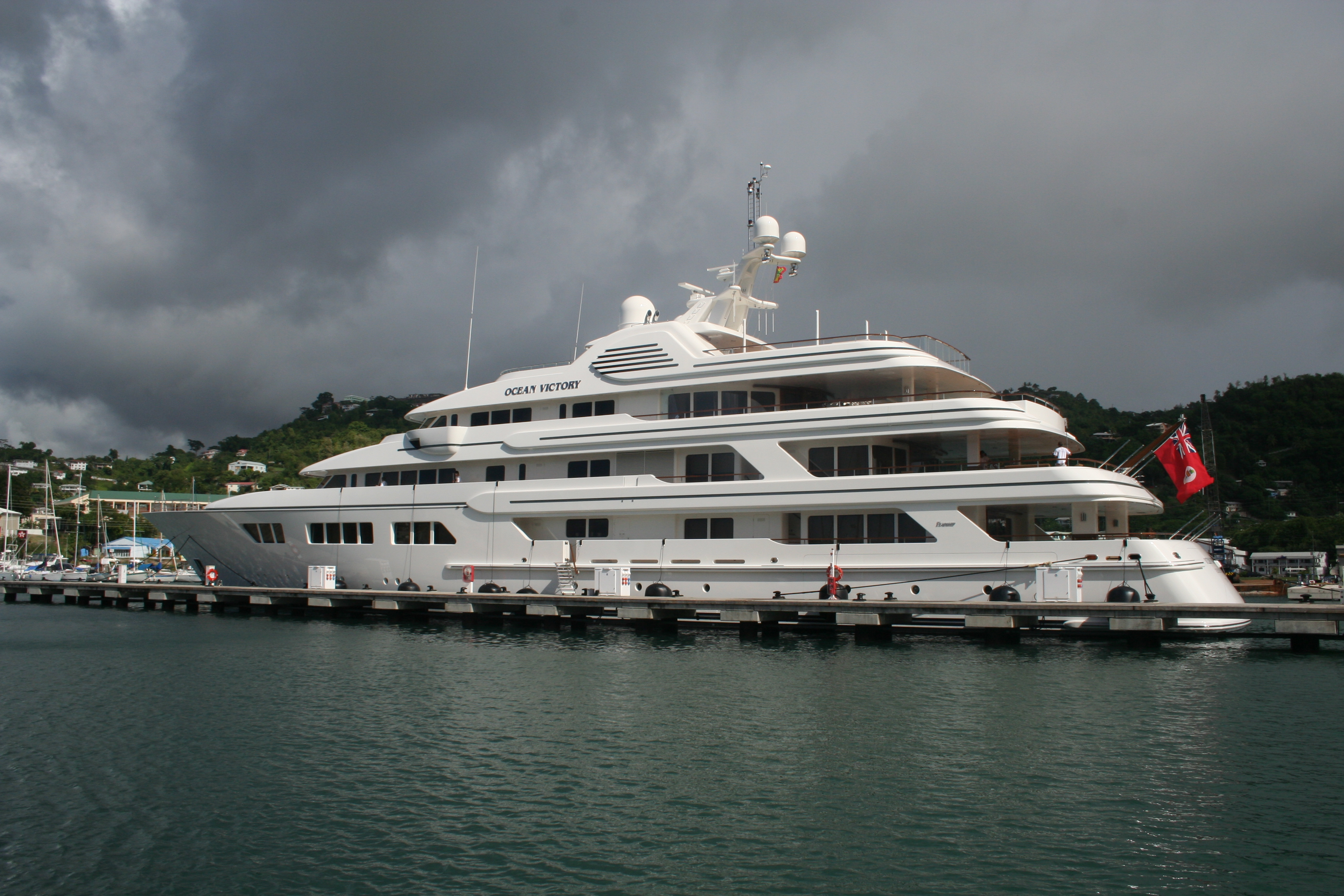 MY Ebony Shine (ex Ocean Victory)